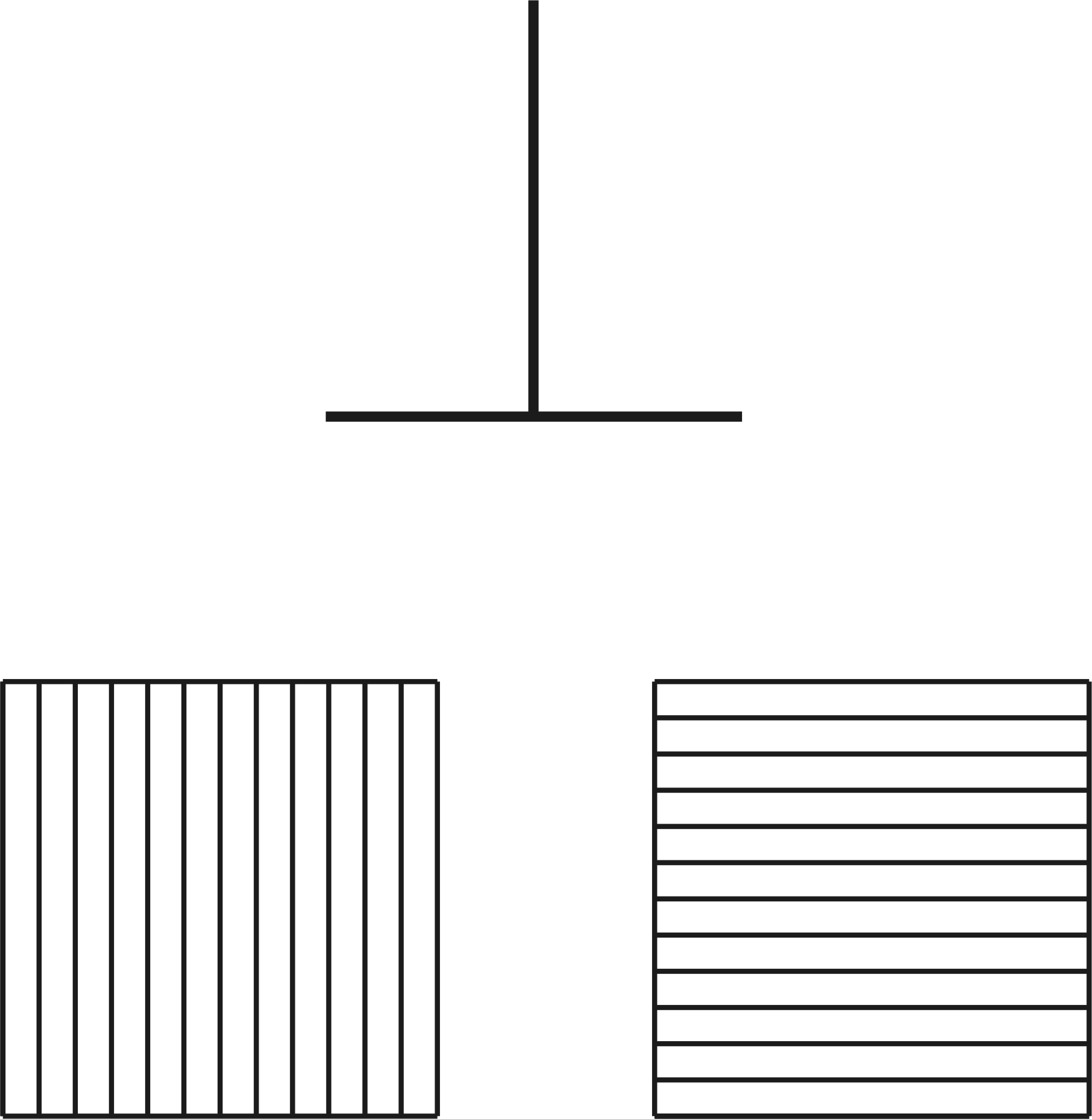 Geometrical-optical illusions: horizontal/vertical anisotropy